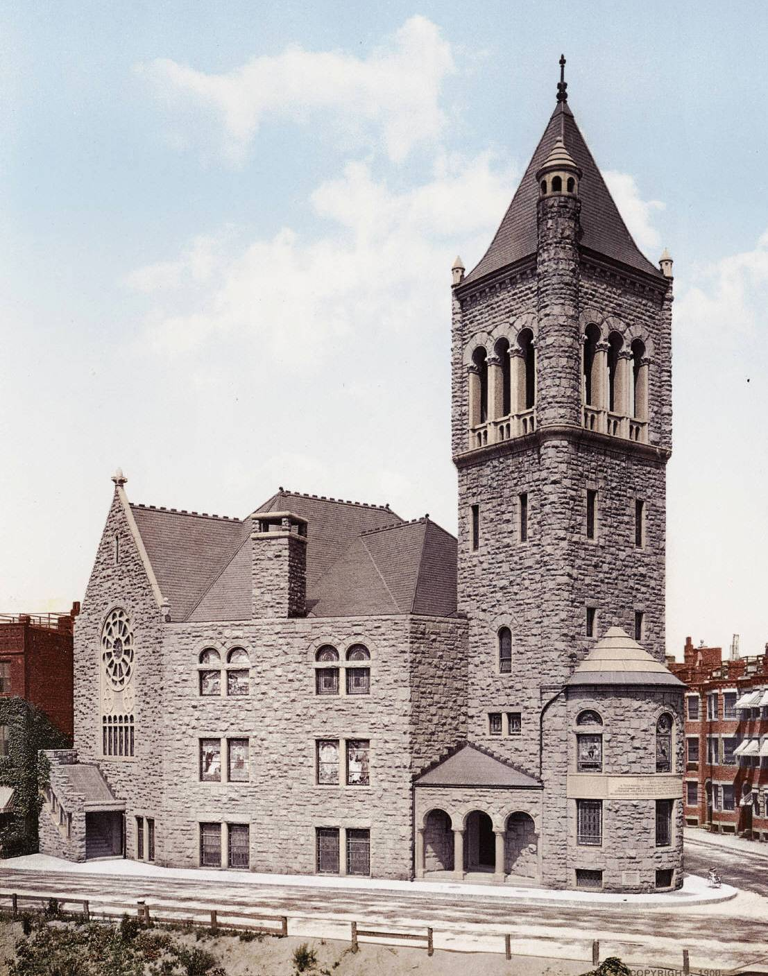 A photochrom postcard published by the Detroit Photographic Company.